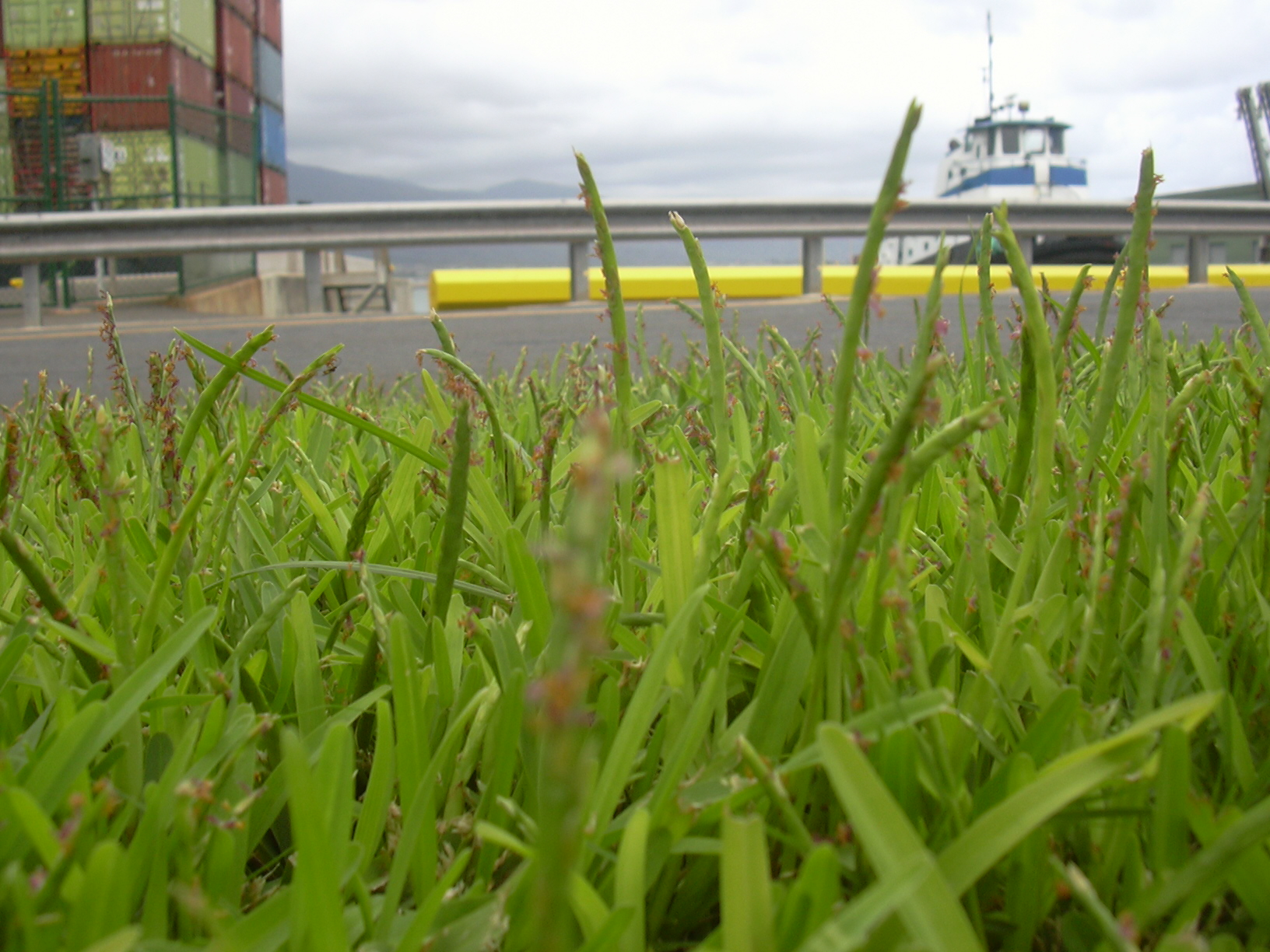 Stenotaphrum secundatum (flowering habit). Location: Maui, Kahului